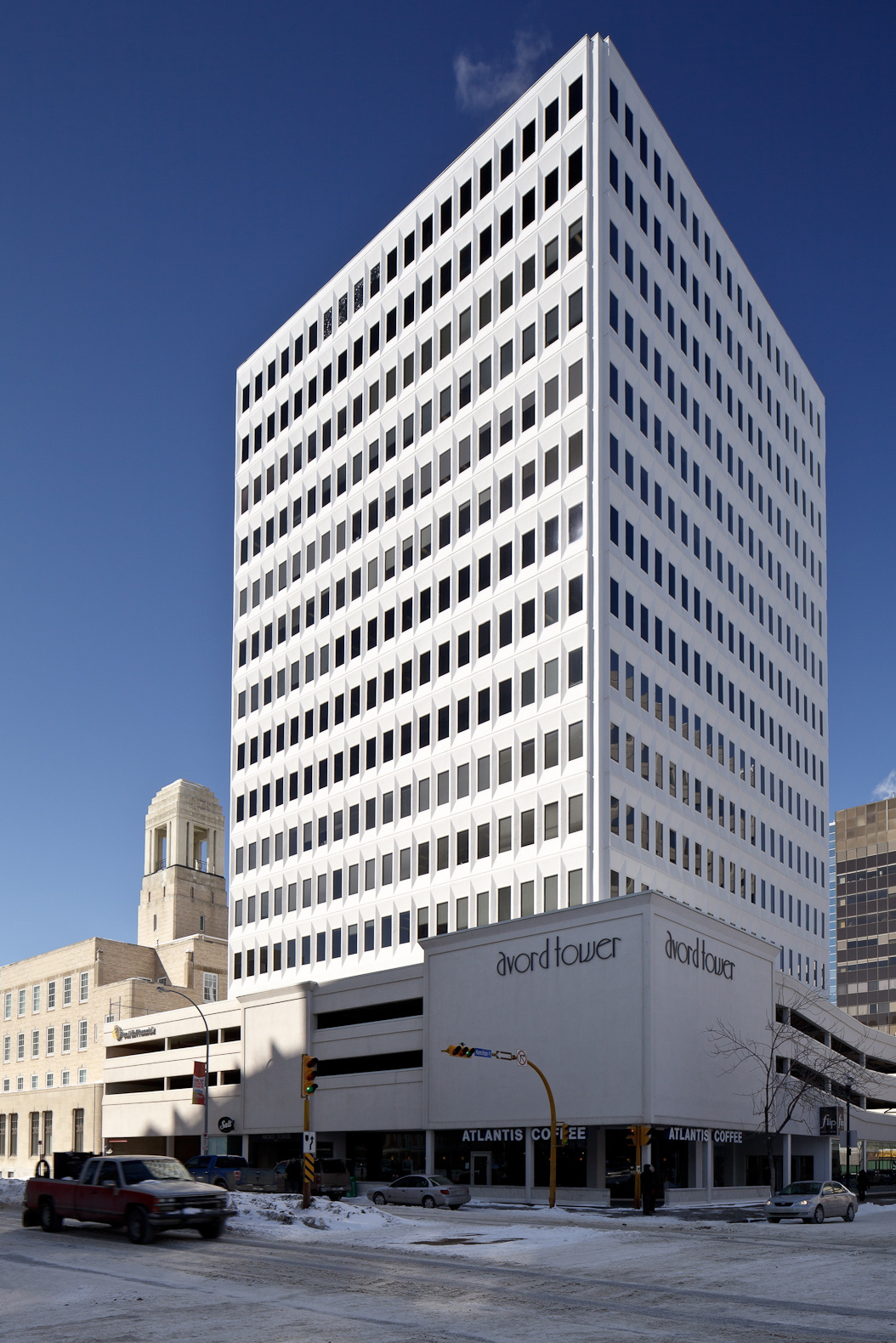 The Avord Tower, in downtown Regina, Saskatchewan.